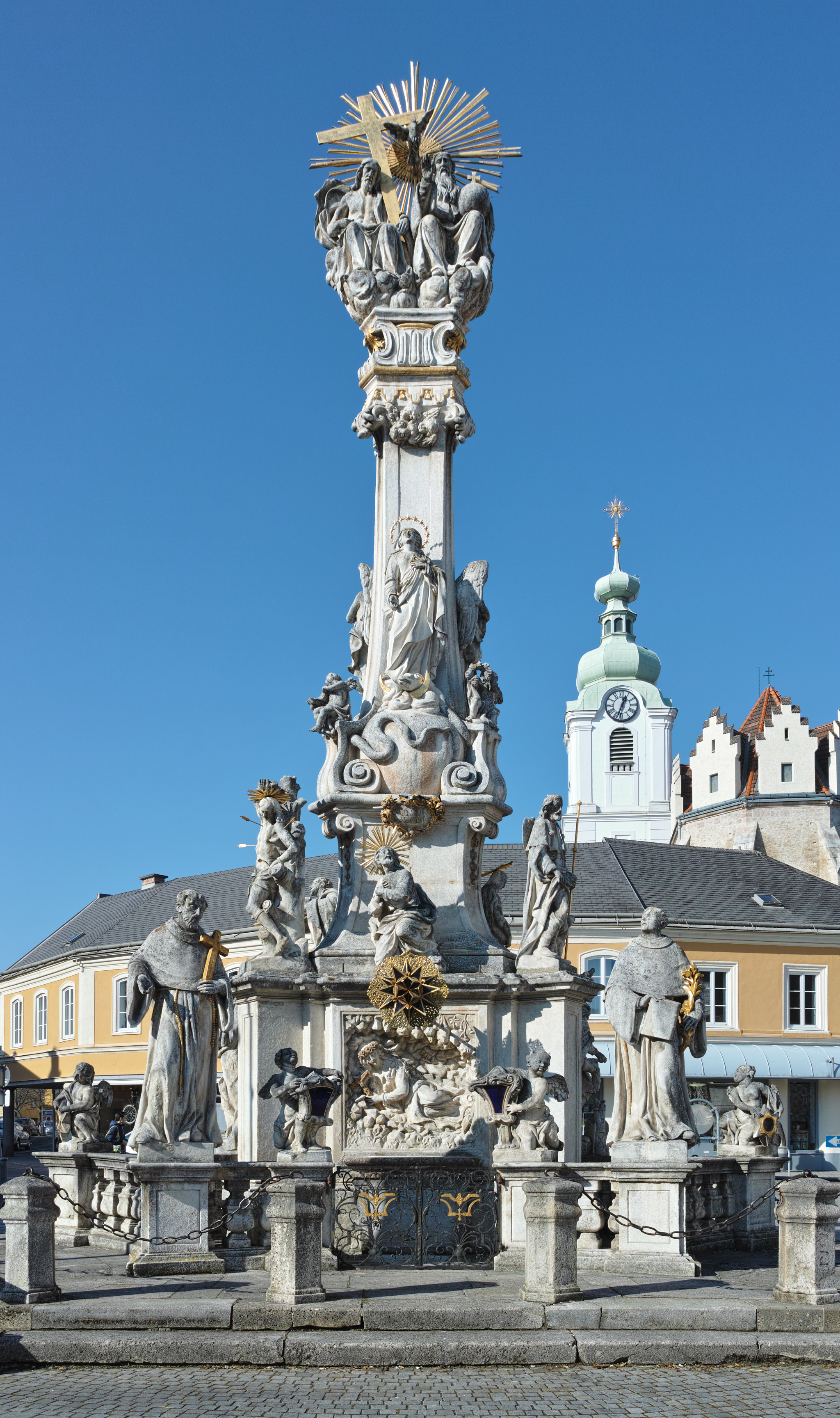 The Holy Trinity column in Neunkirchen, Lower Austria from South East on February 14th, 2015.